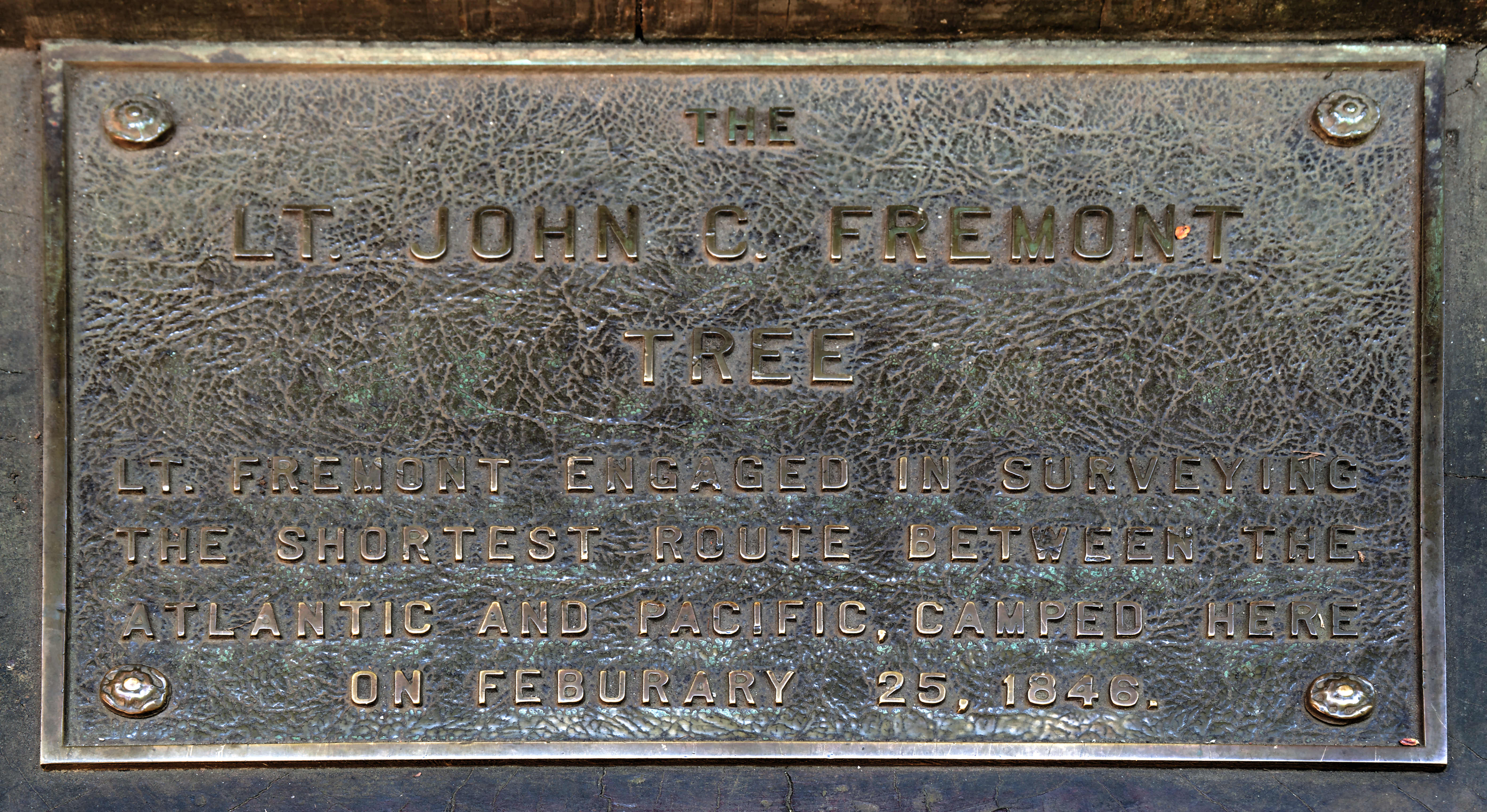 plaque in front of the tree inside of which Lt. John. C. Fremont camped in 1846